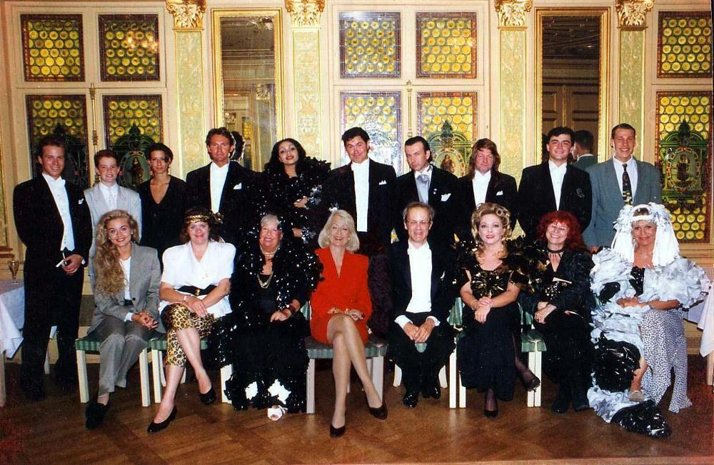 Celebrants at the Mae West Centenary held at Berns in Berzelii Park, Stockholm, Sweden, as released by image creator Lars Jacob Prod. Left to right: Janne Stenberg, Patrik Rosén, Johanna Lind, Popi, Eva Nor-Forsberg, Playgirl model Jan Hilary, Saga Sjöberg, La Camilla, Alexandra Charles, Göran Rydh, Lars Jacob, Thomas Dellert, Håkan Lundqvist, Rita Jacobsen, Kaan Keskiner, Monica Lundegård, Mikael Lundberg and Christina Schollin.